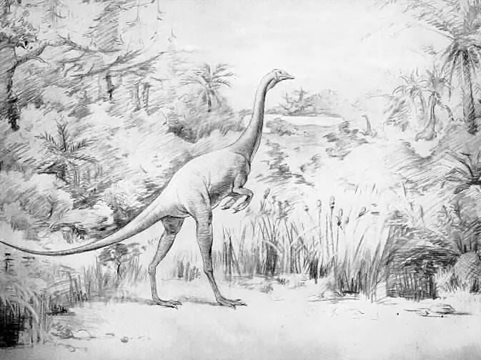 Struthiomimus by Irwin S. Christman (1885-1921) from Natural History Magazine 1921 United States